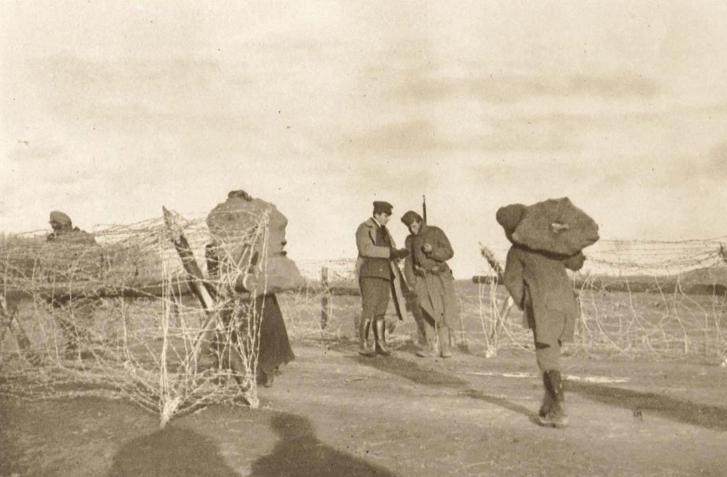 First line on the Czechoslovak-Hungarian Front in 1919.